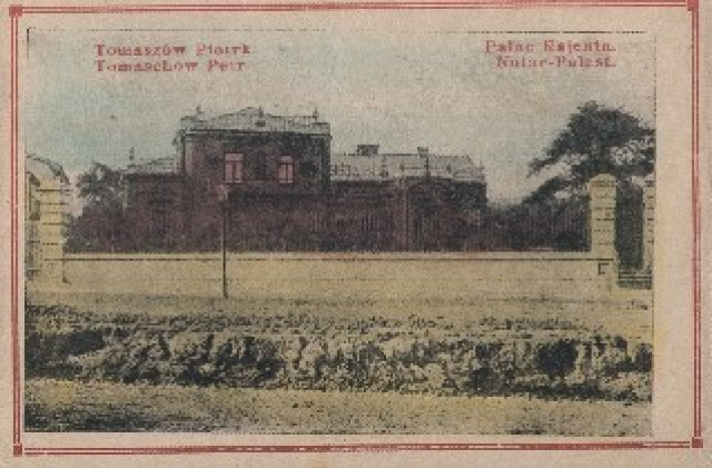 Jan Rozycki's Villa